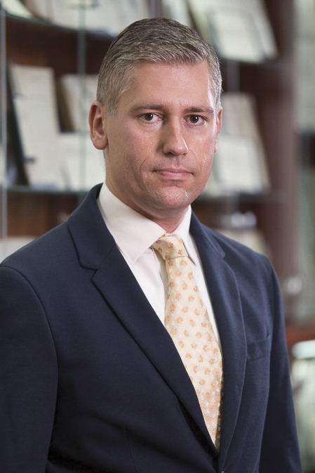 Проф. др. Драгиша Дракић